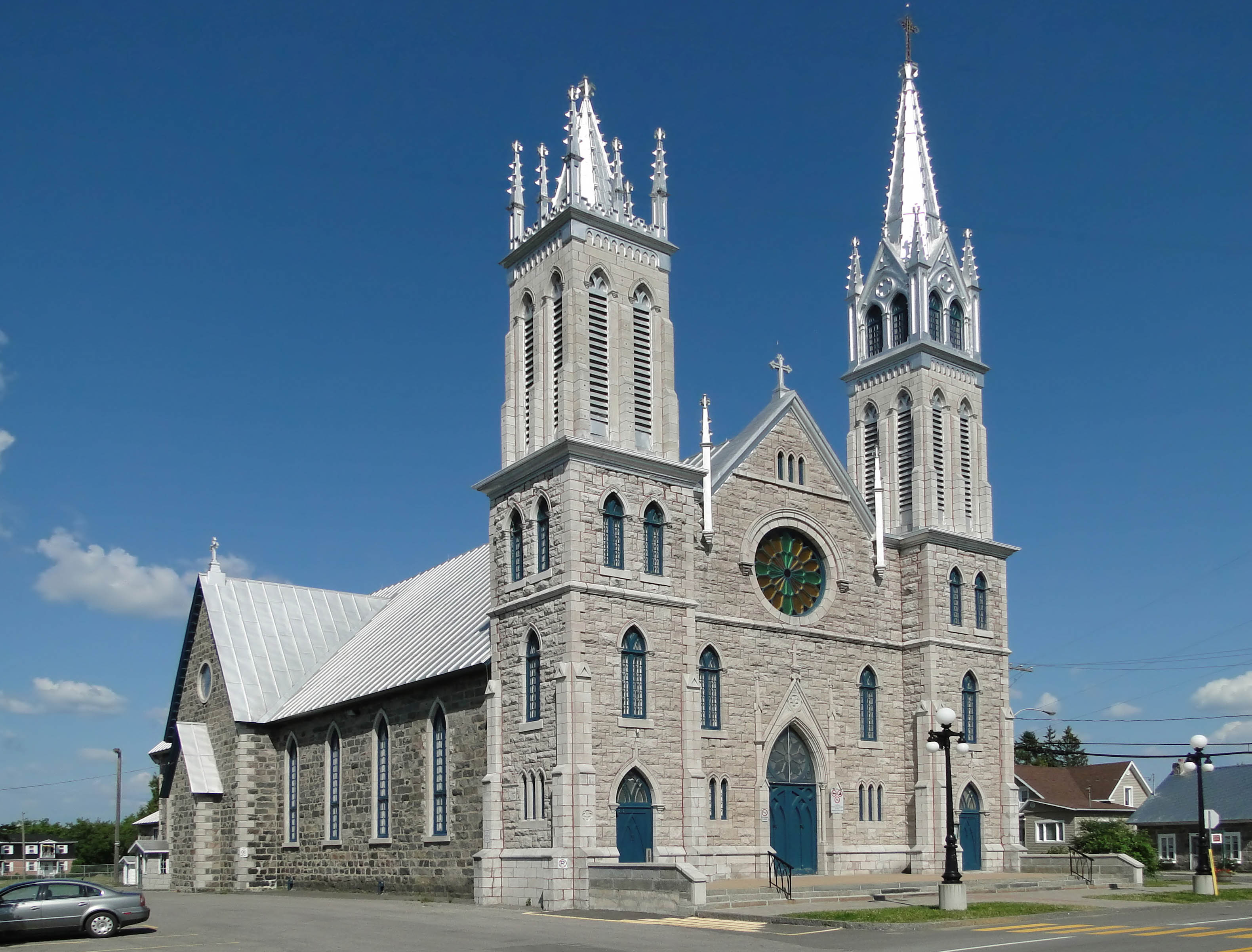 Saint-Narcisse Church, Saint-Narcisse, province of Quebec, Canada